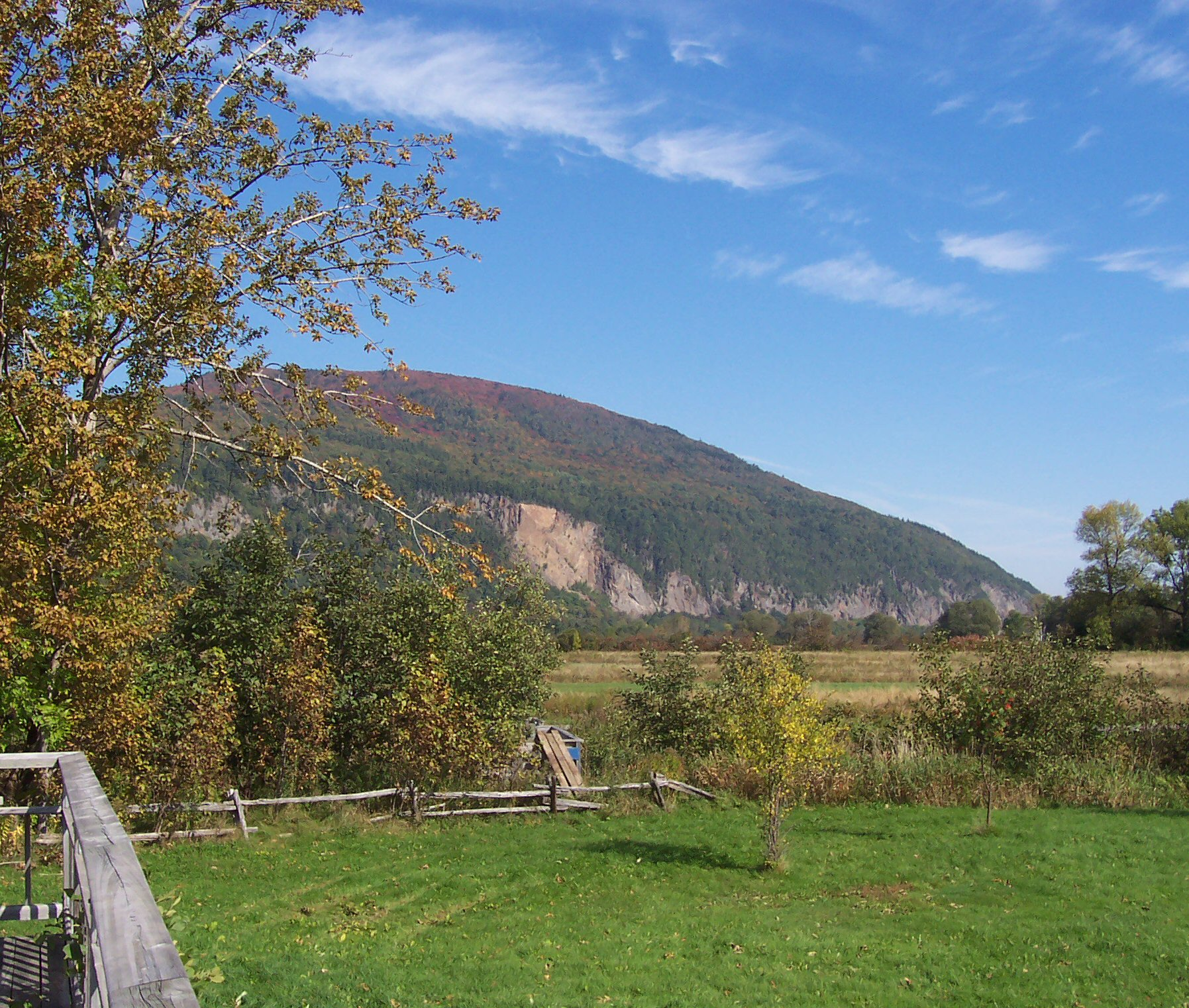 Scenery at the Cap Tourmente national wildlife reserve, Quebec, Canada. Photo par / taken by Boréal (User:Boréal)